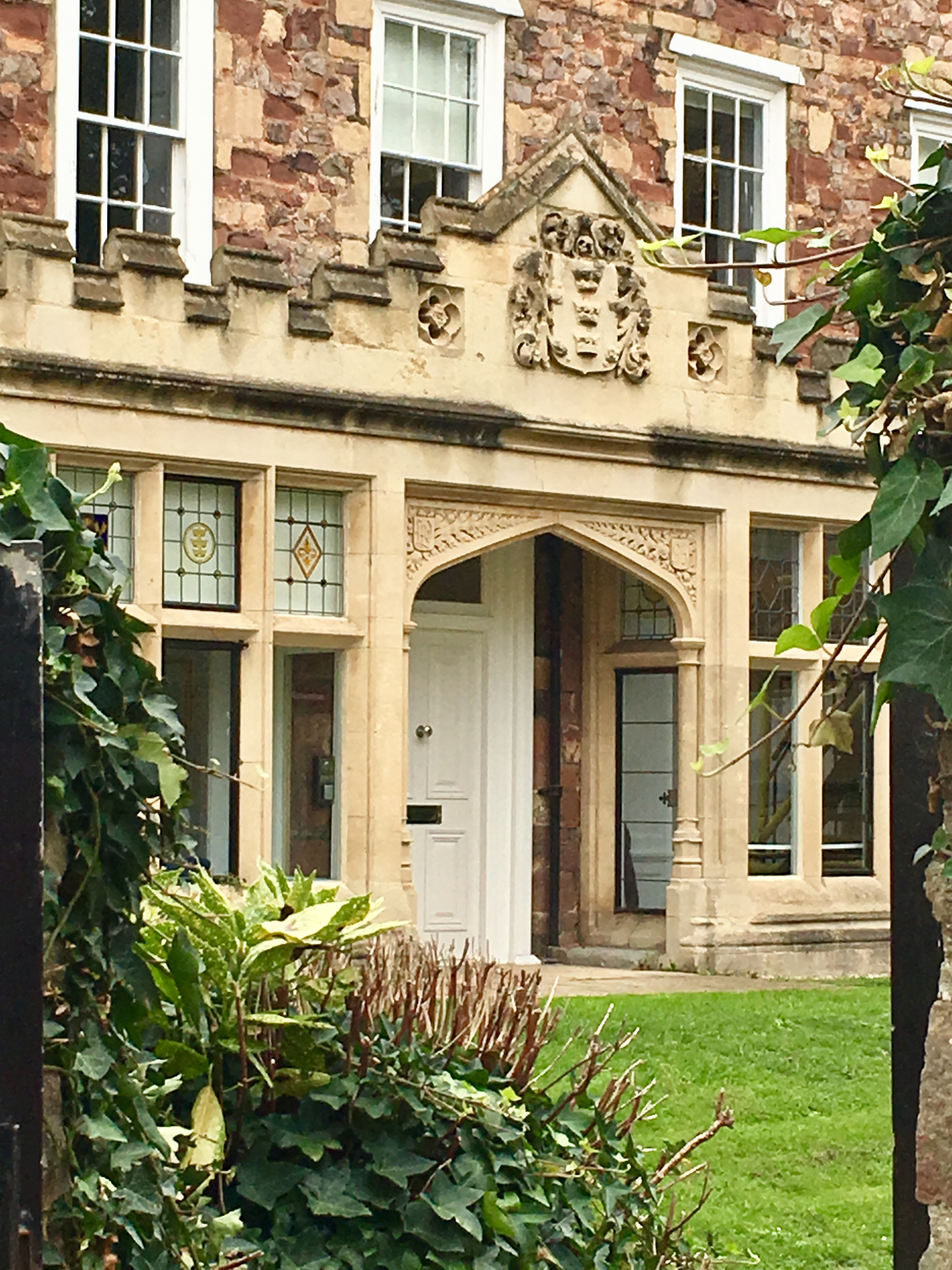 Cathedral School Wikidata has entry Q17553332 with data related to this item.